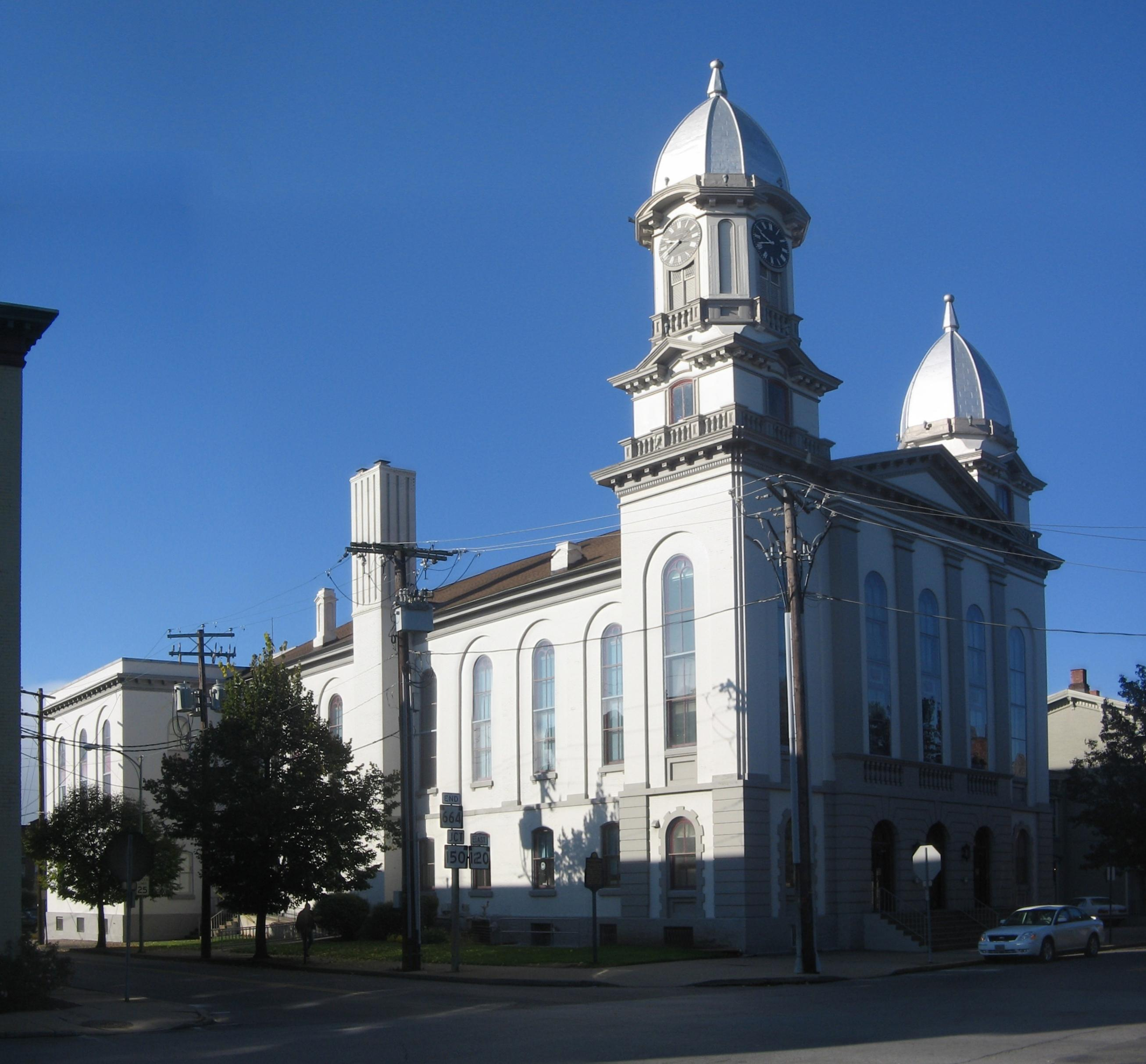 Courthouse, downtown Lock Haven, Clinton County, Pennsylvania, USA